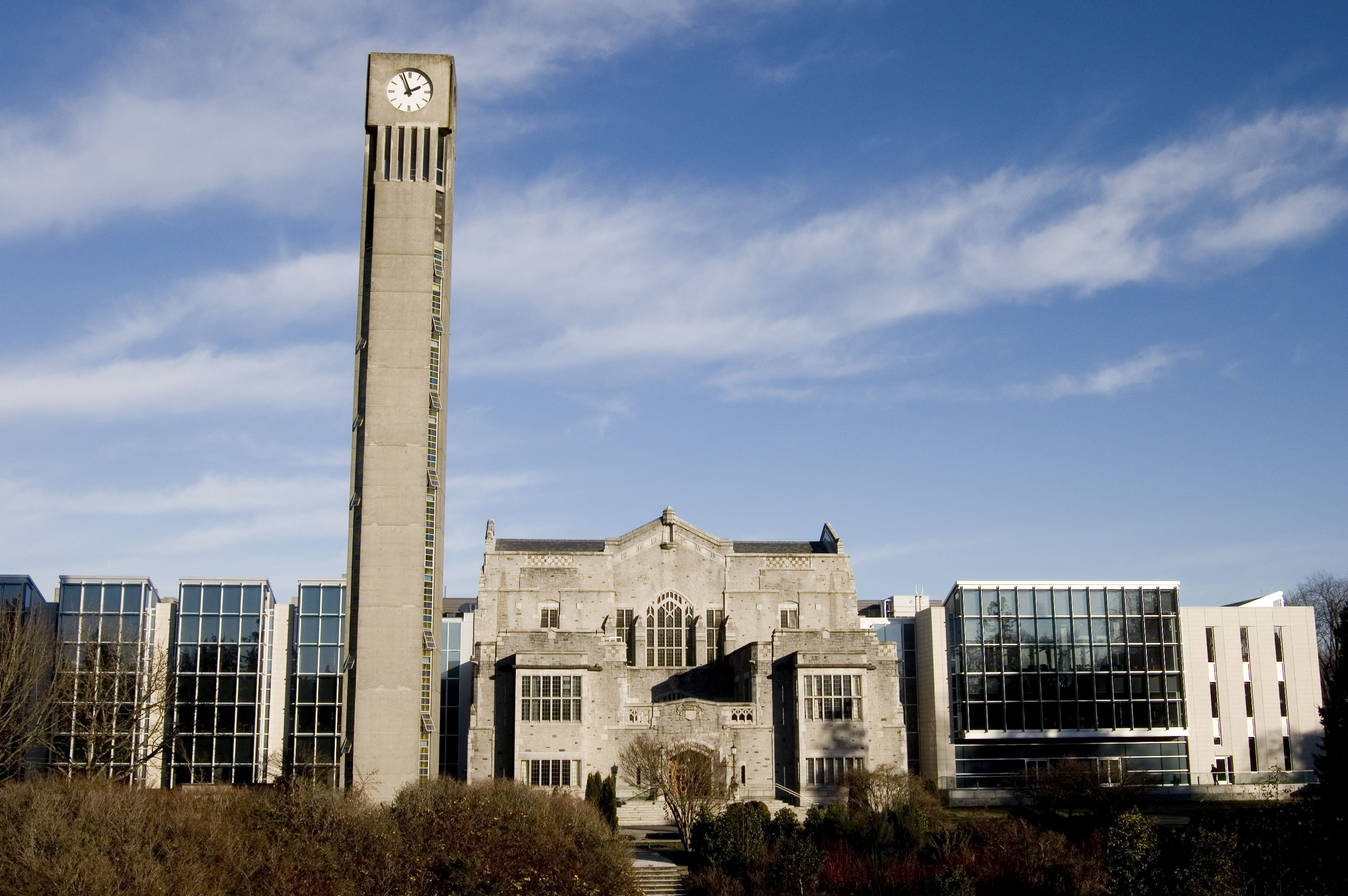 A picture of the Irving K. Barber Learning Centre at the University of British Columbia, with view of the former Main Library.